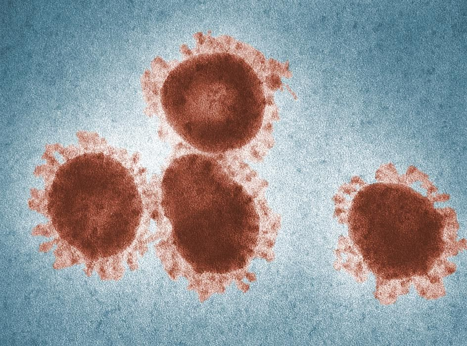 This 1975, digitally colorized transmission electron microscopic (TEM) image, depicted four avian infectious bronchitis virus (IBV) virions, which are Coronaviridae family members. IBV is a highly contagious pathogen, which infects poultry of all ages, affecting a number of organ systems, including the respiratory and urogenital organs. IBV possesses a helical genome, composed of non-segmented, positive-sense single-stranded RNA ((+) ssRNA). This is an enveloped virus, which means that its outermost covering is derived from the host cell membrane. The coronavirus derives its name from the fact that under electron microscopic examination, each virion is surrounded by a corona, or halo, due to the presence of viral spike peplomers emanating from its proteinaceous capsid.